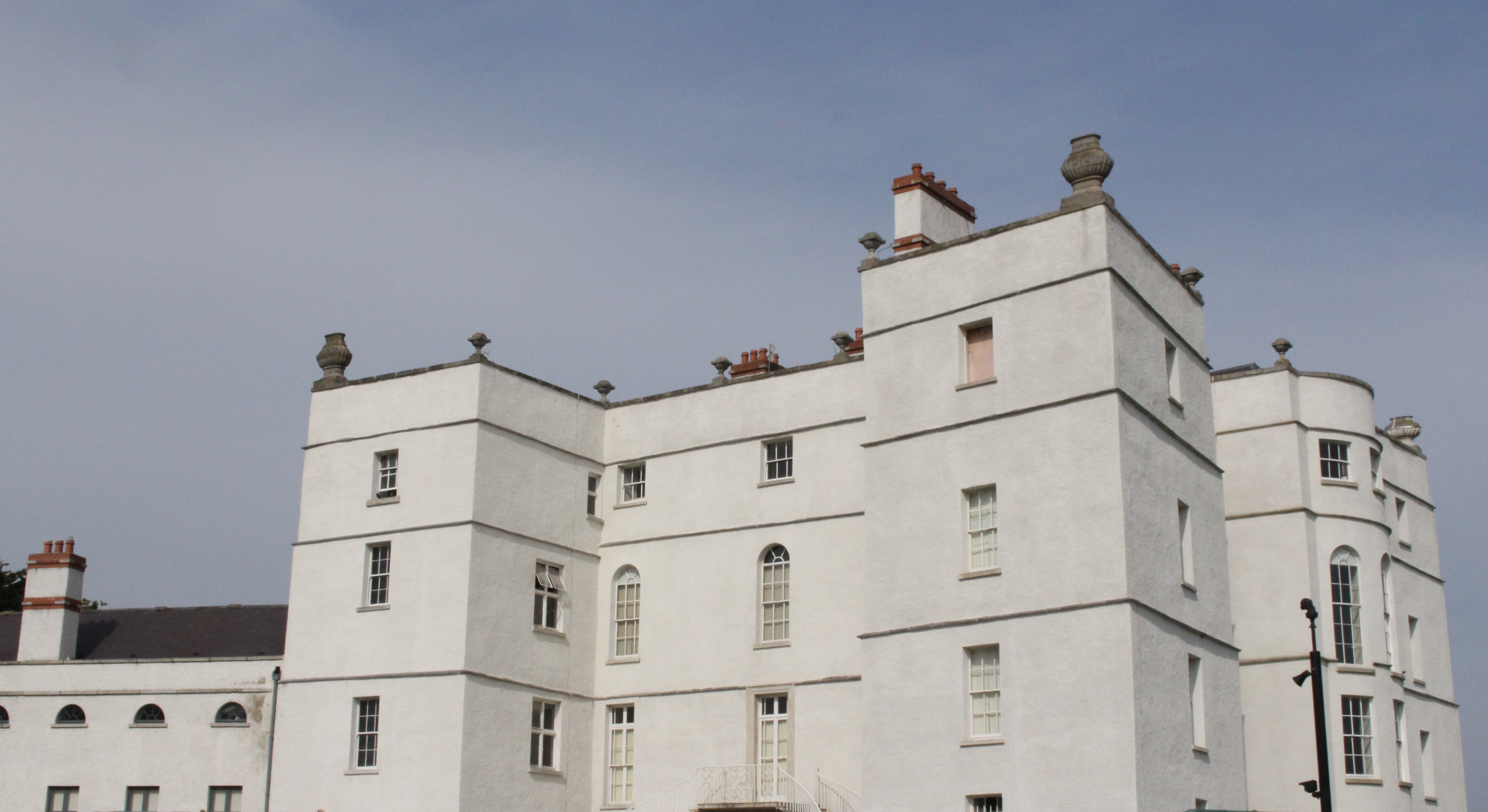 Rathfarnham Castle